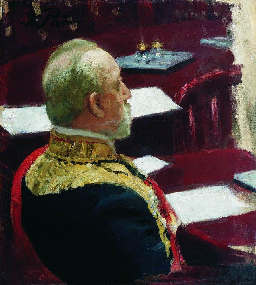 Portrait of Secretary of State, member of State Council Mikhail Nikolayevich Galkin-Vraskoi. Study for the picture Formal Session of the State Council. Oil on canvas. 65 × 58,5 cm. Regional Picture Gallery of Primorie, Vladivostok.